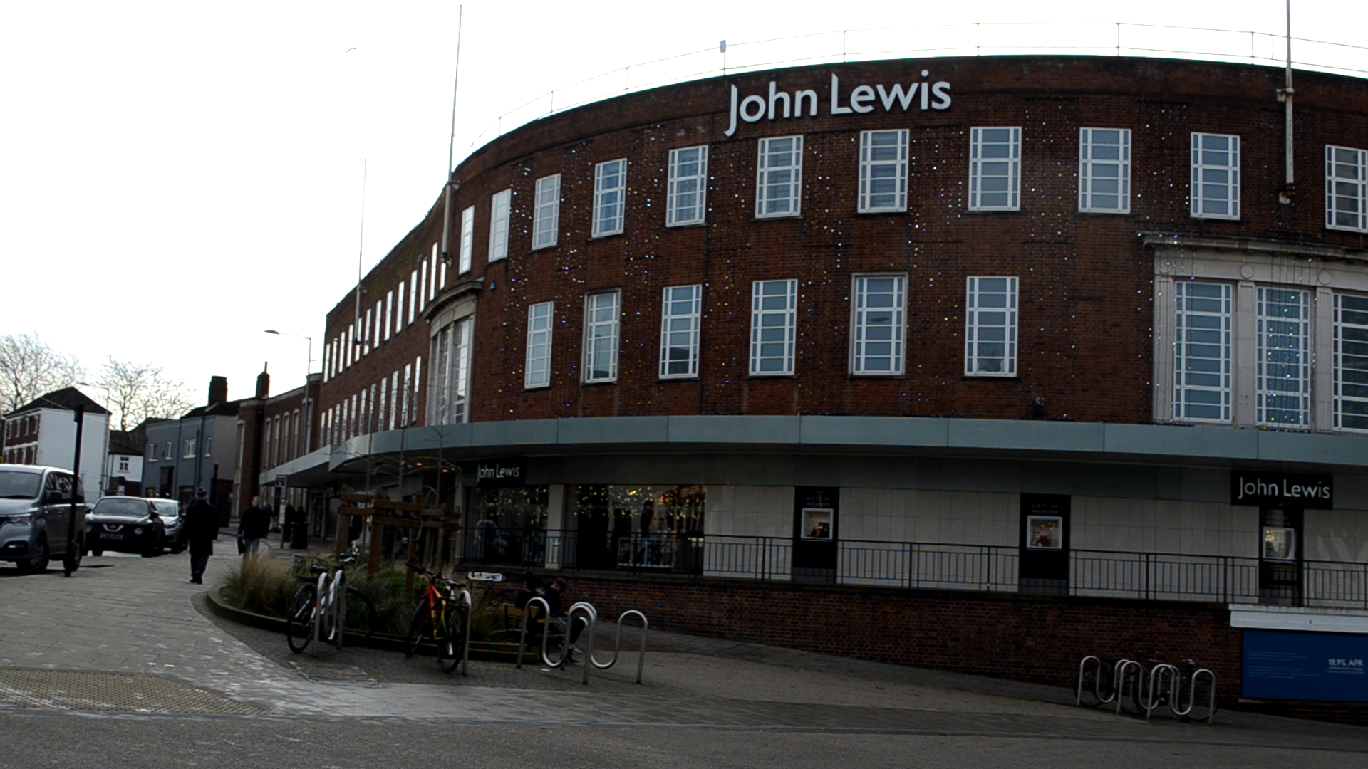 A picture of the John Lewis on Ber Street in Norwich.